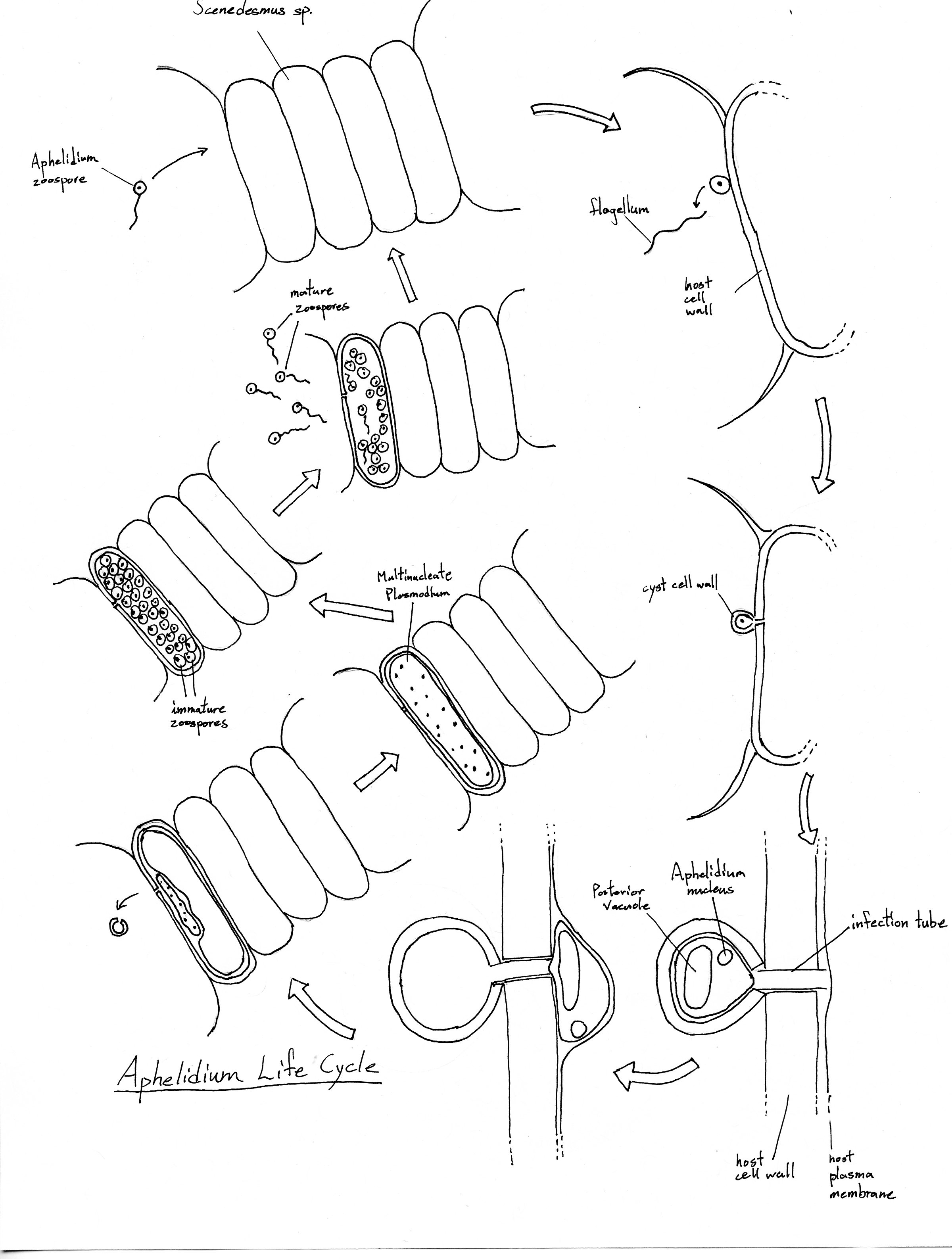 figure depicting Aphelidium infecting a green algae